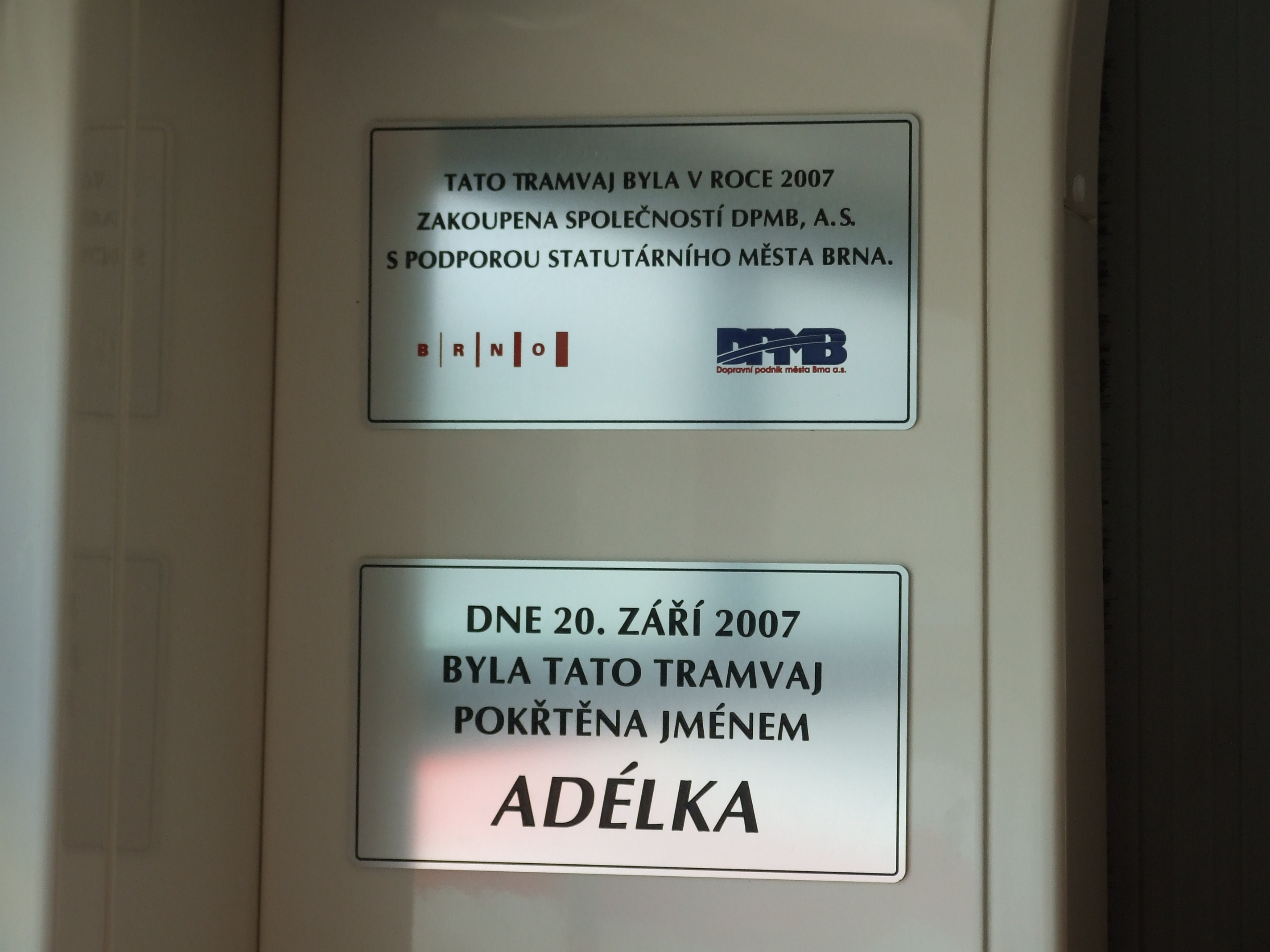 Brno tram Škoda 13Thelp